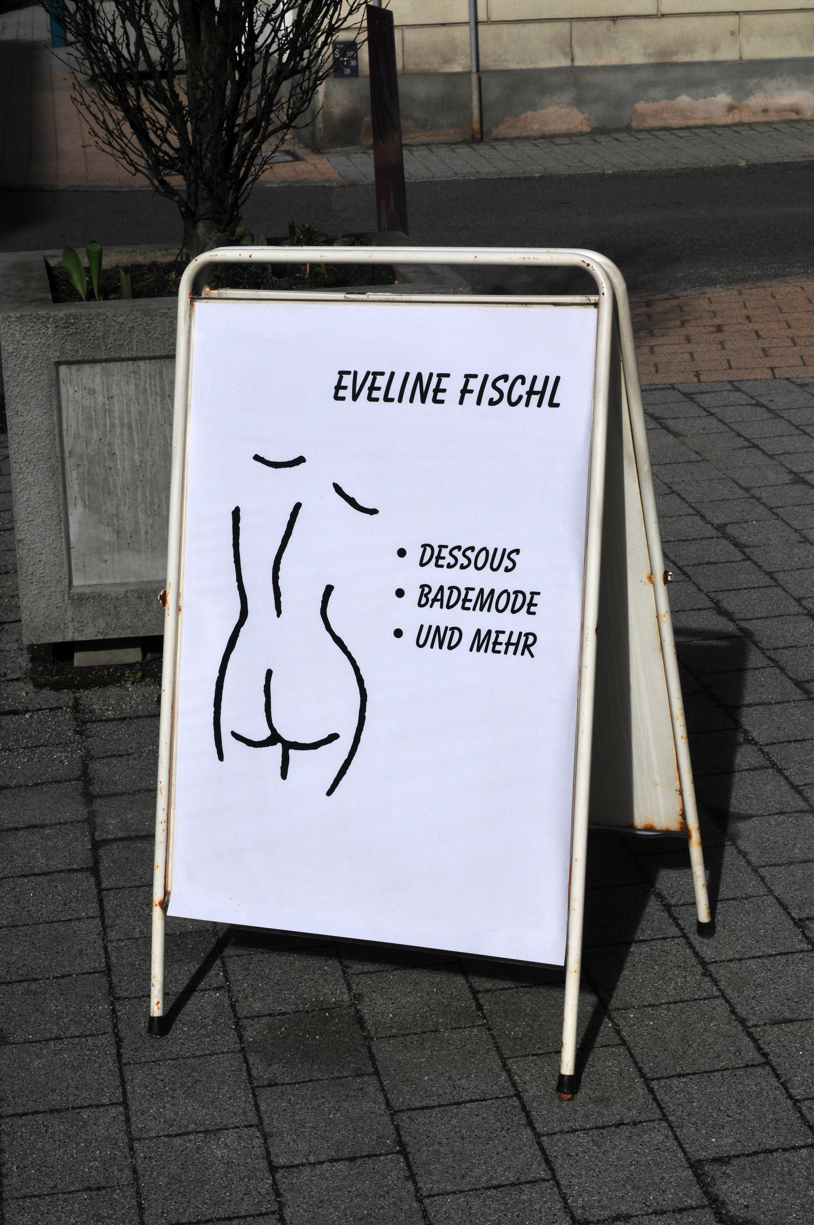 St. Pölten, Austria Fotowanderung St. Pölten 13. April 2013 in St. Pölten, Niederösterreich 50mm • Allgemeines • Bahnhof • Domplatz • Fahrräder • Landhausviertel • Rathausplatz This file is used in a Wikiversity project or course. Please don't change it before you inform the author. nettes Bild mit wenigen Strichen